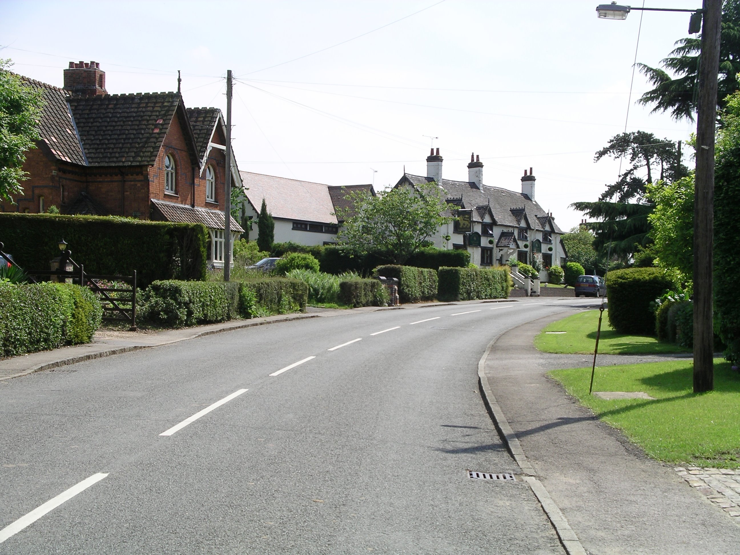 Photo of the village of Easenhall, Warwickshire, England.